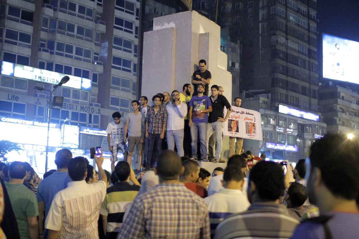 Original description: "Supporters of the Third Square movement gather at Sphinx Square, Cairo, July 28, 2013. (Hamada Elrasam for VOA)"